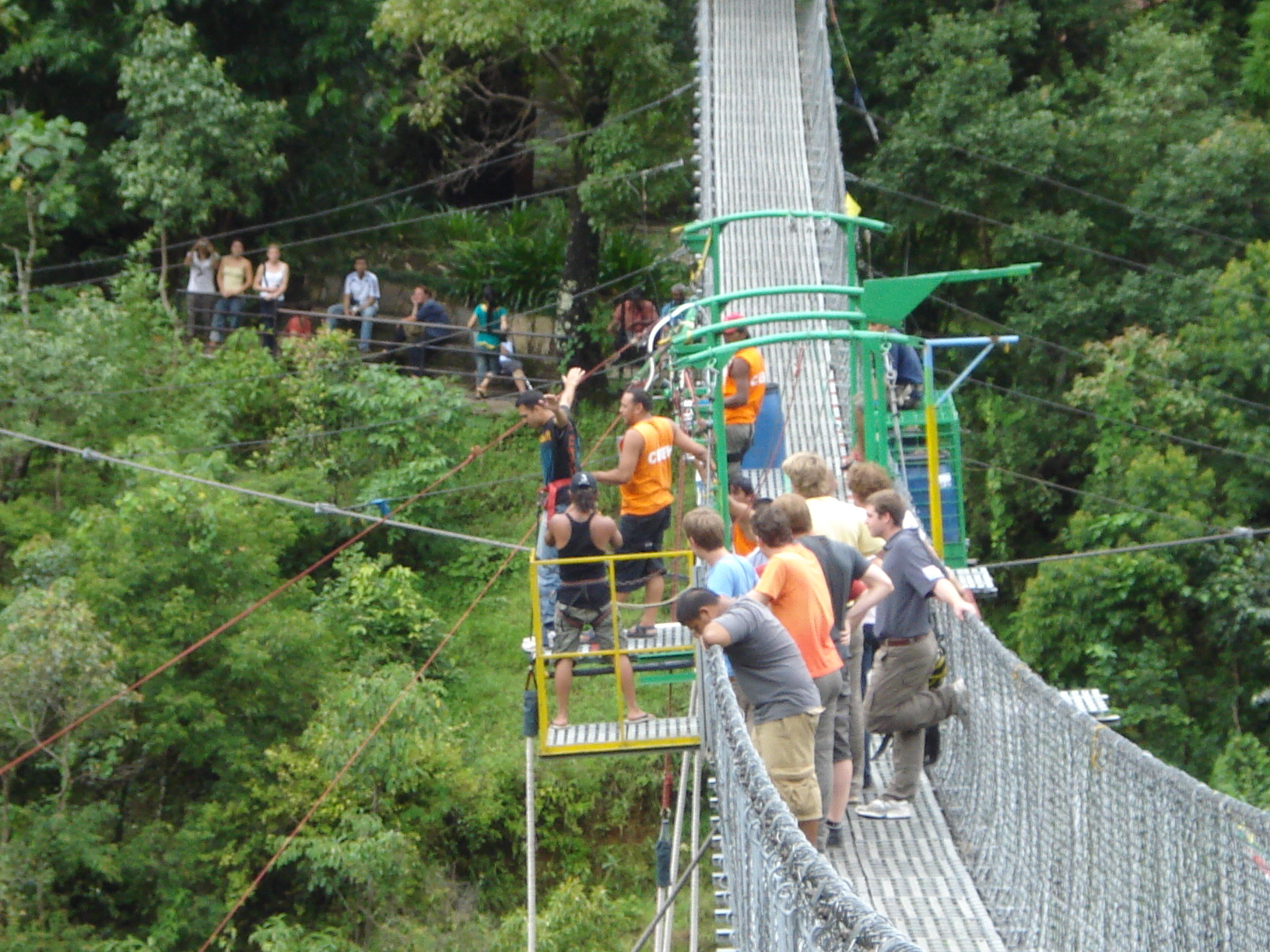 Bungy Jumping from a bridge at the Last Resort, Nepal.